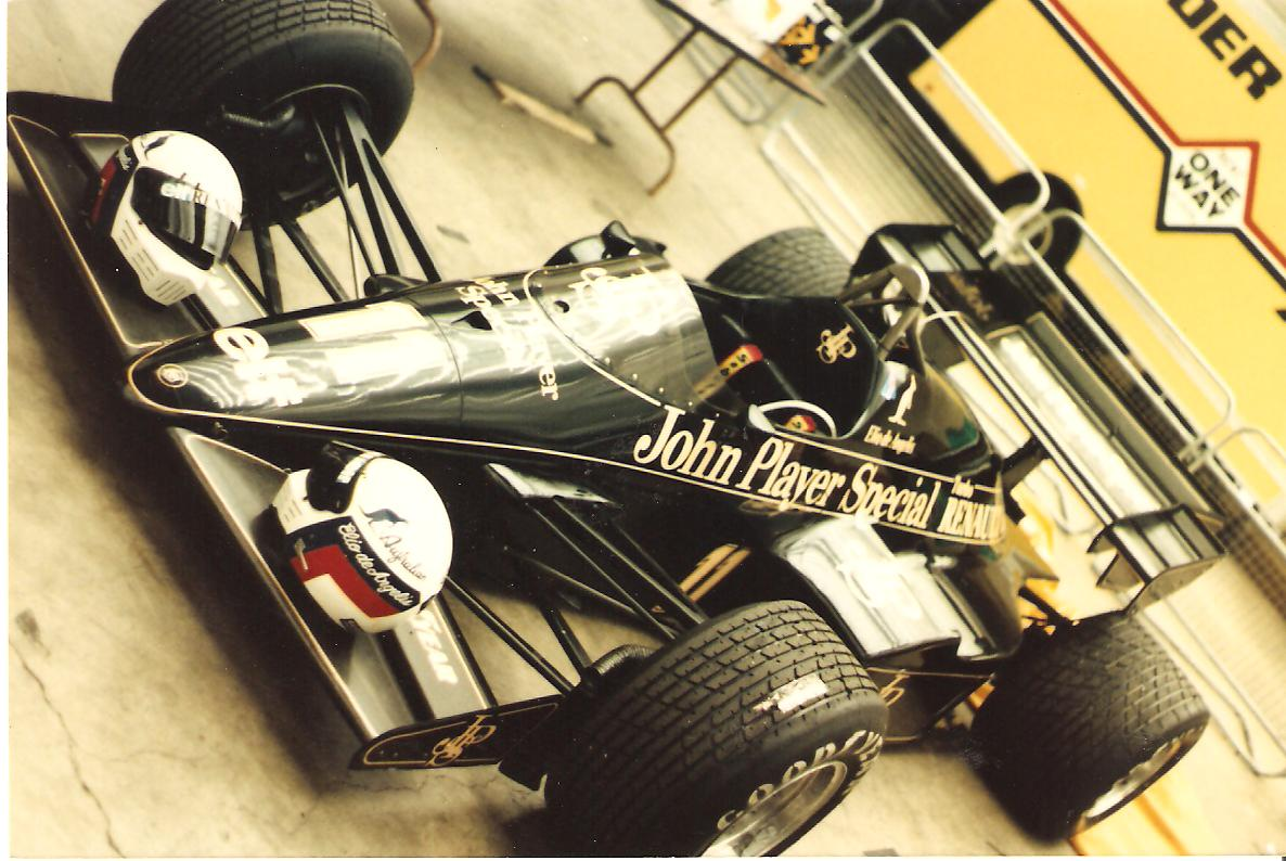 Lotus 95T F1 car in the garages at the Detroit Grand Prix 1984.